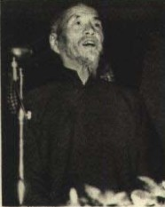 喜饶嘉措，中国全国政协第一次会议，1950年